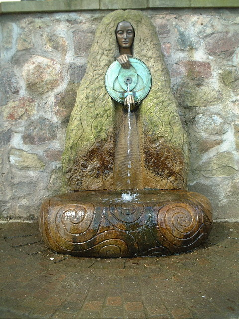 The Malvinha Fountain. A modern fountain in the centre of Great Malvern. Fed with Malvern Water.